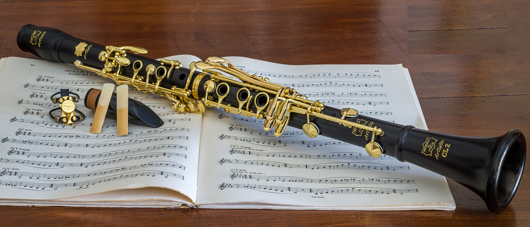 Clarinet in Bb from Fratelli Patricola, Italy